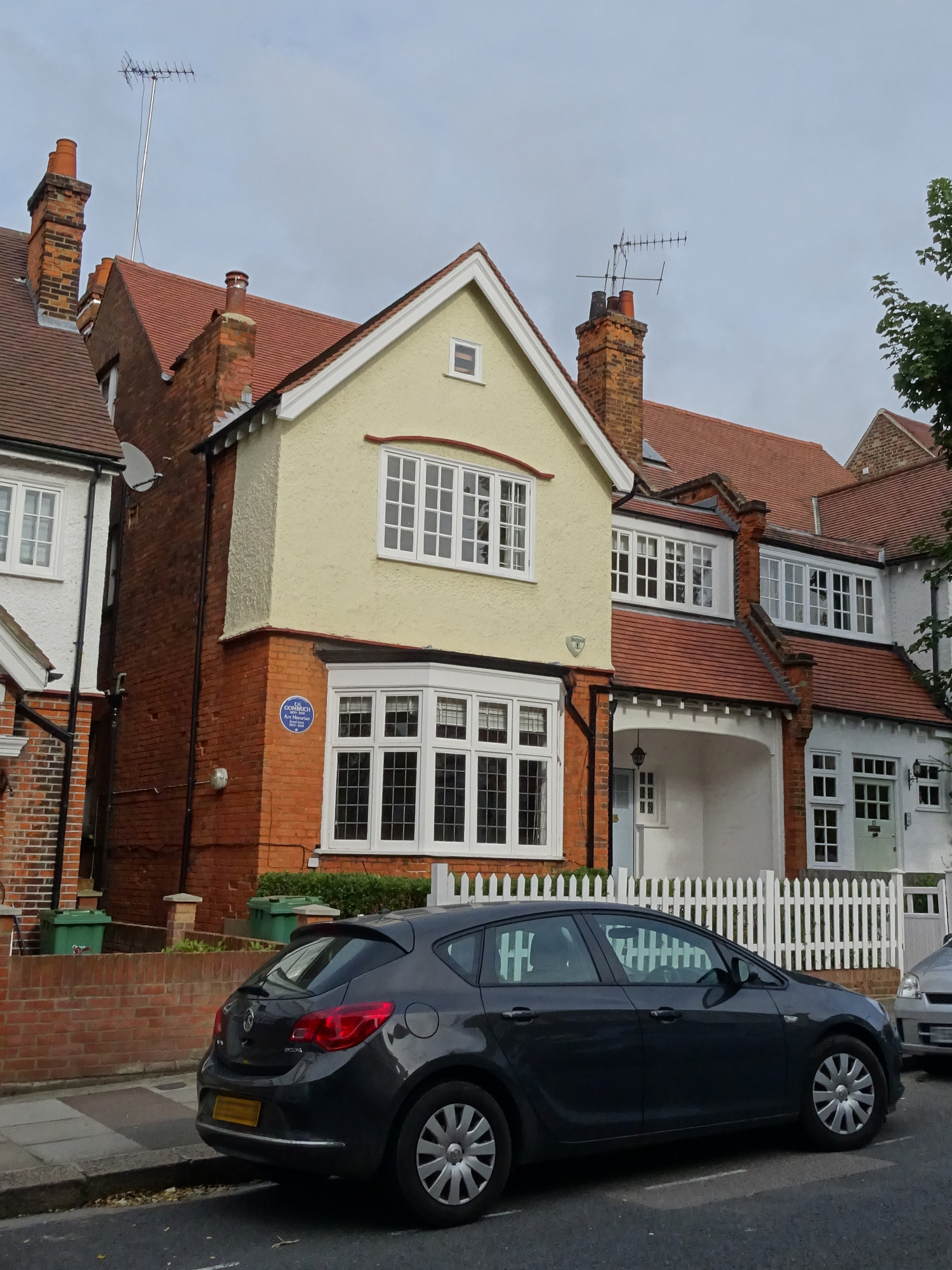 E H GOMBRICH Art historian lived here 1952-2001